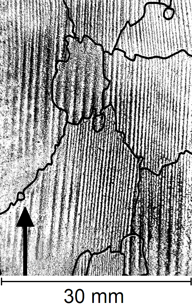 Magnetic domains in grain-oriented electrical steel as seen in domain viewer. The arrow shows rolling direction of the steel. Black curves outline the grain structure.